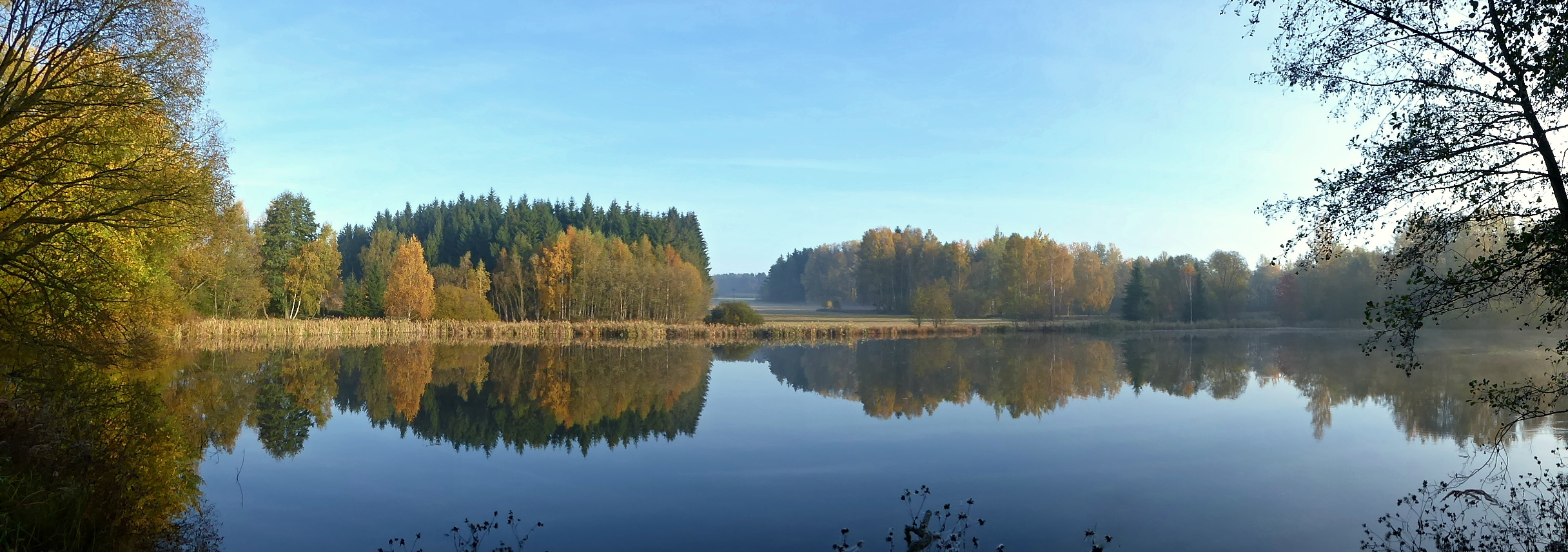 "Dolní ratajský" pond is a part of the system with three ponds in the cadastral area of Hlinsko in the Chrudim district belonging to the Pardubice Region in the Czech Republic. The pond system with surrounding meadows and partially forest vegetation forms a natural monument and a European important site with name "Ratajské rybníky" in the Protected Landscape Area "Žďárské" Hills. European significance locality with an area of 20,4 hectares is overlaps natural monument with an area of 11,42 ha and lies within the regional divide of georelief of the Czech Republic's in the Iron Mountains, in the geomorphological district "Kameničská" Highlands. Photo location: Czechia, Pardubice Region, town Hlinsko, "Dolní ratajský" pond (60°).